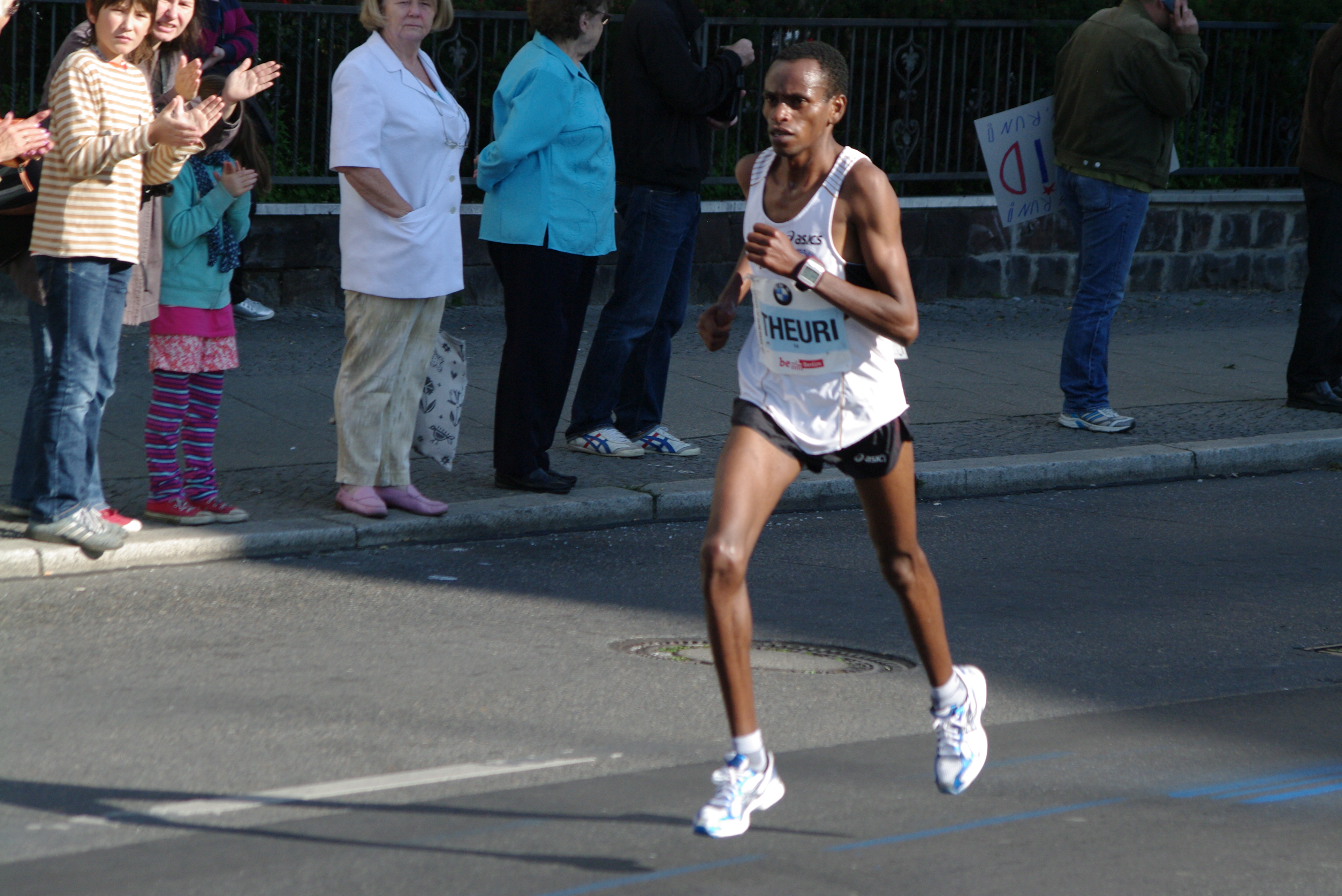 James Theuri at the Berlin Marathon 2011 Kilometer 35, Tauentzien